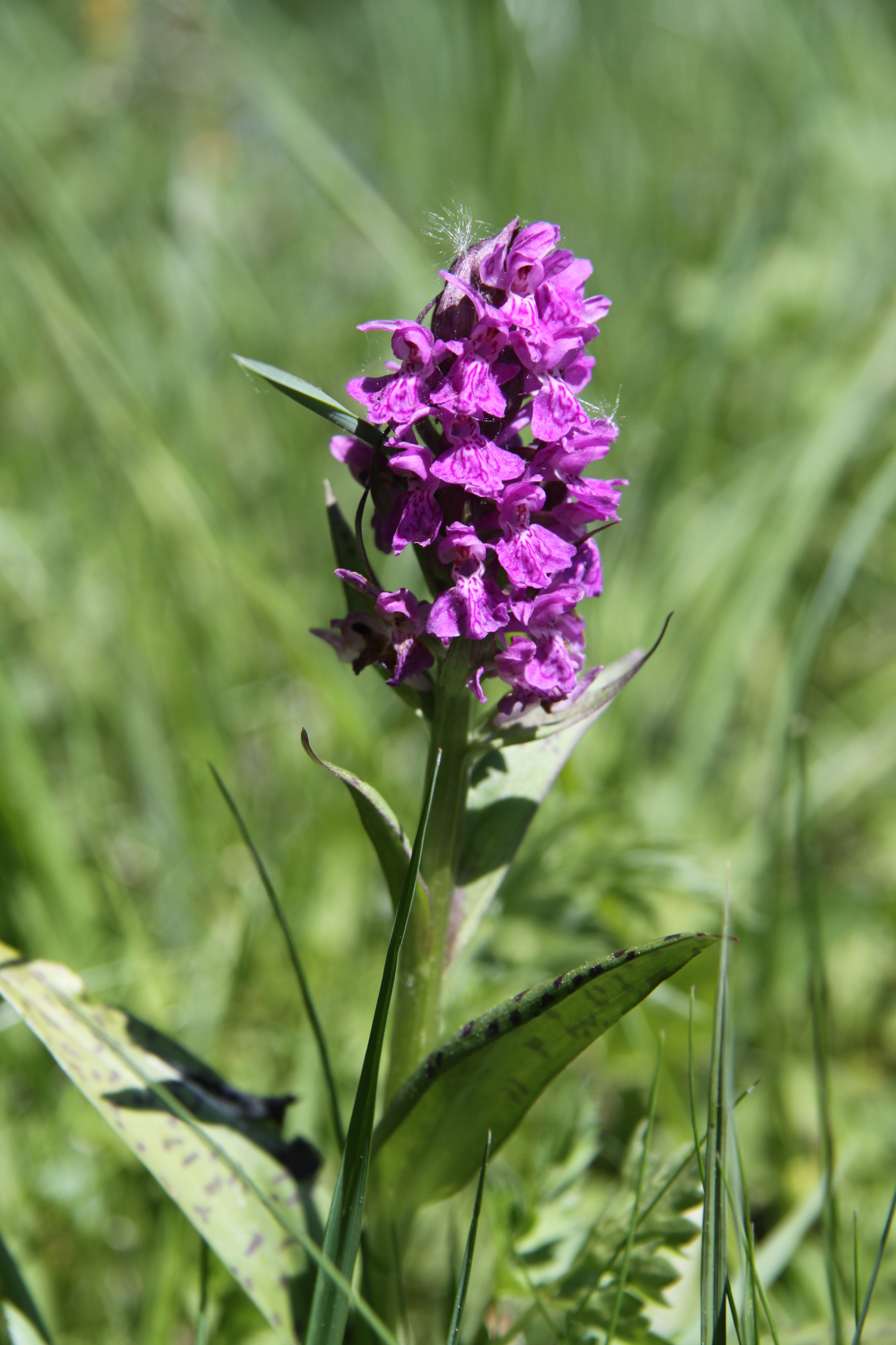 Dactylorhiza majalis in natural monument Chvalšovické pastviny near Chvalšovice village in Strakonice District, Czech Republic. - Google Maps - Google Earth